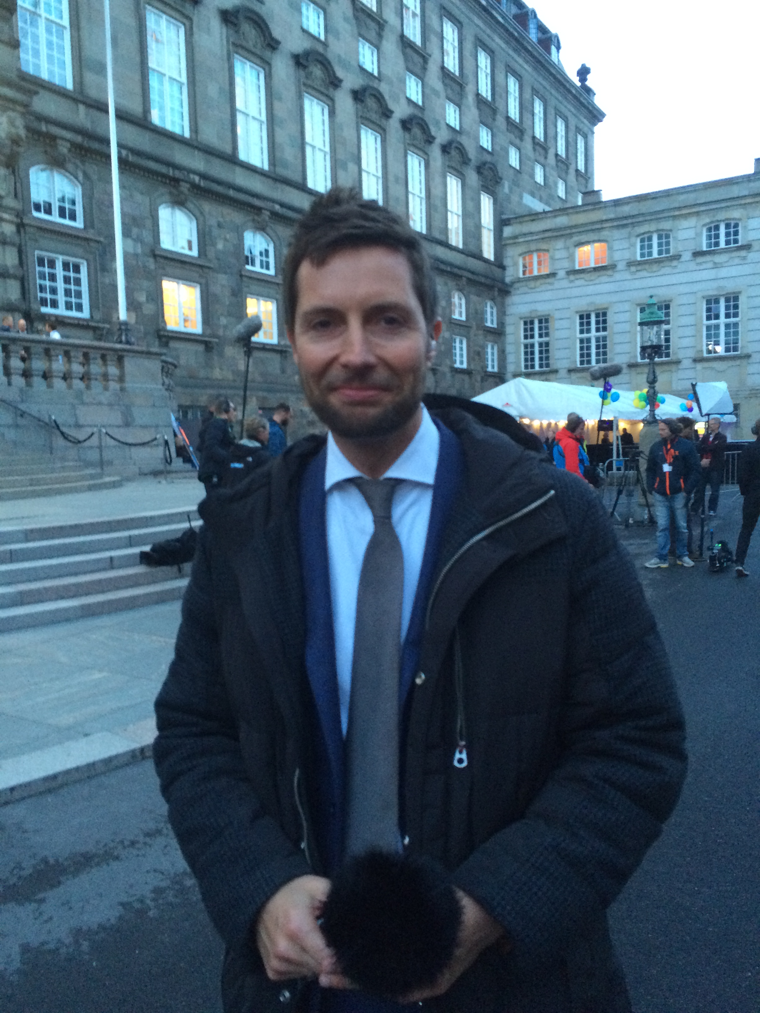 Electionsday for Folketinget in Denmark 18/6 2015. Kåre Quist, Danish journalist from DR.